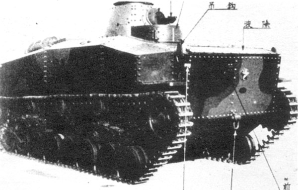 Front angle view of IJA SR I-Go experimental amphibious tank